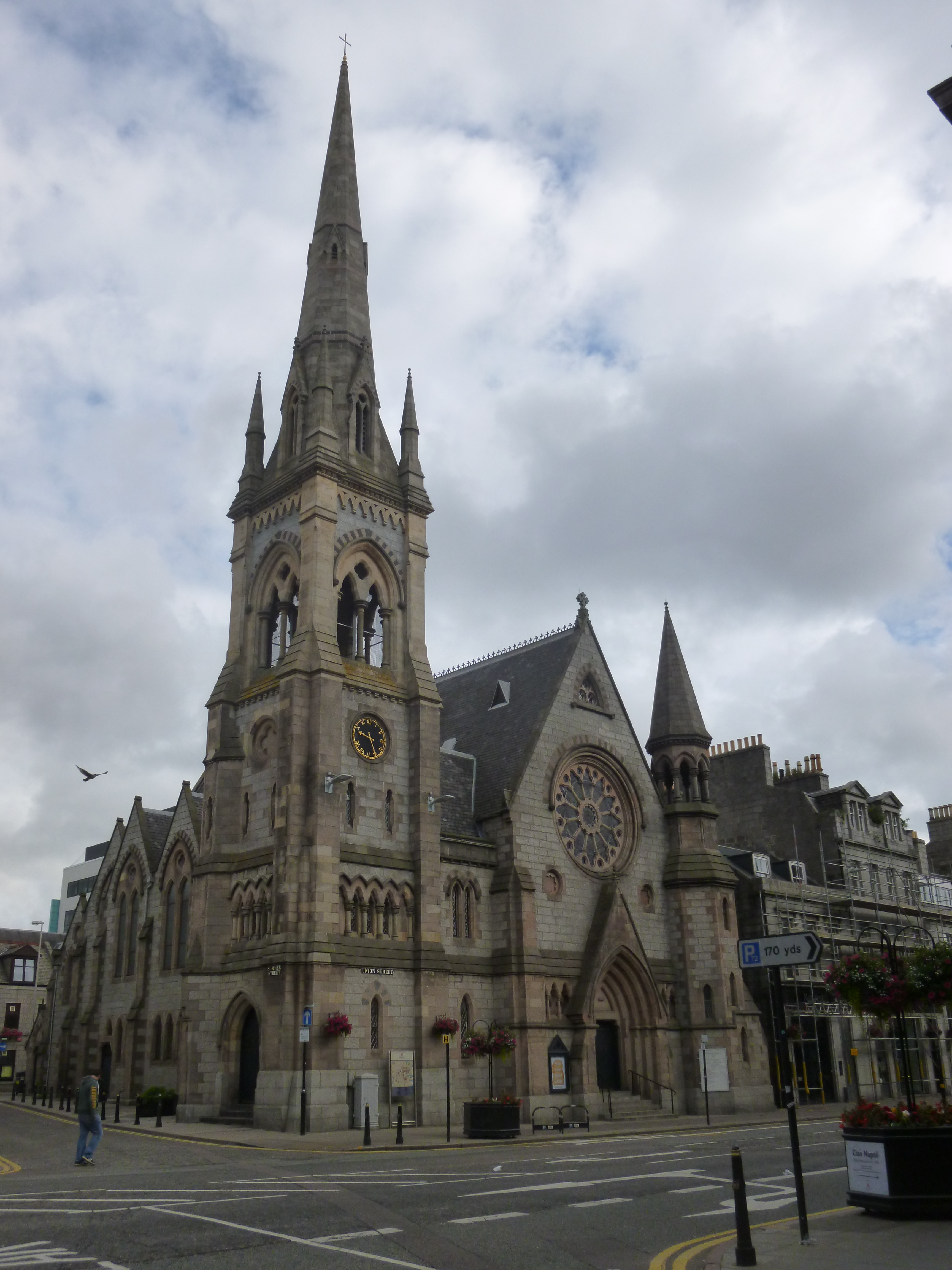 Gilcomston Church, Union St, Aberdeen